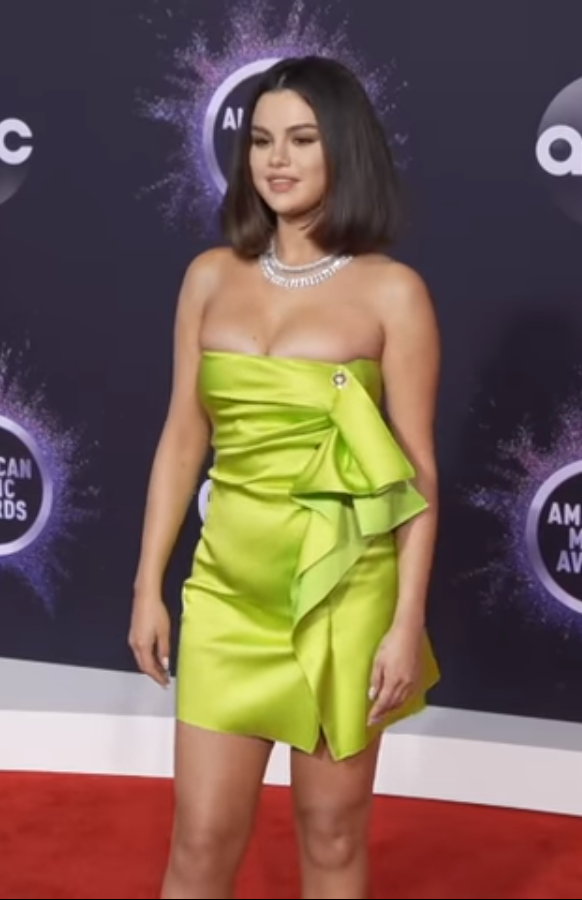 Selena Gomez at the 2019 American Music Awards red carpet